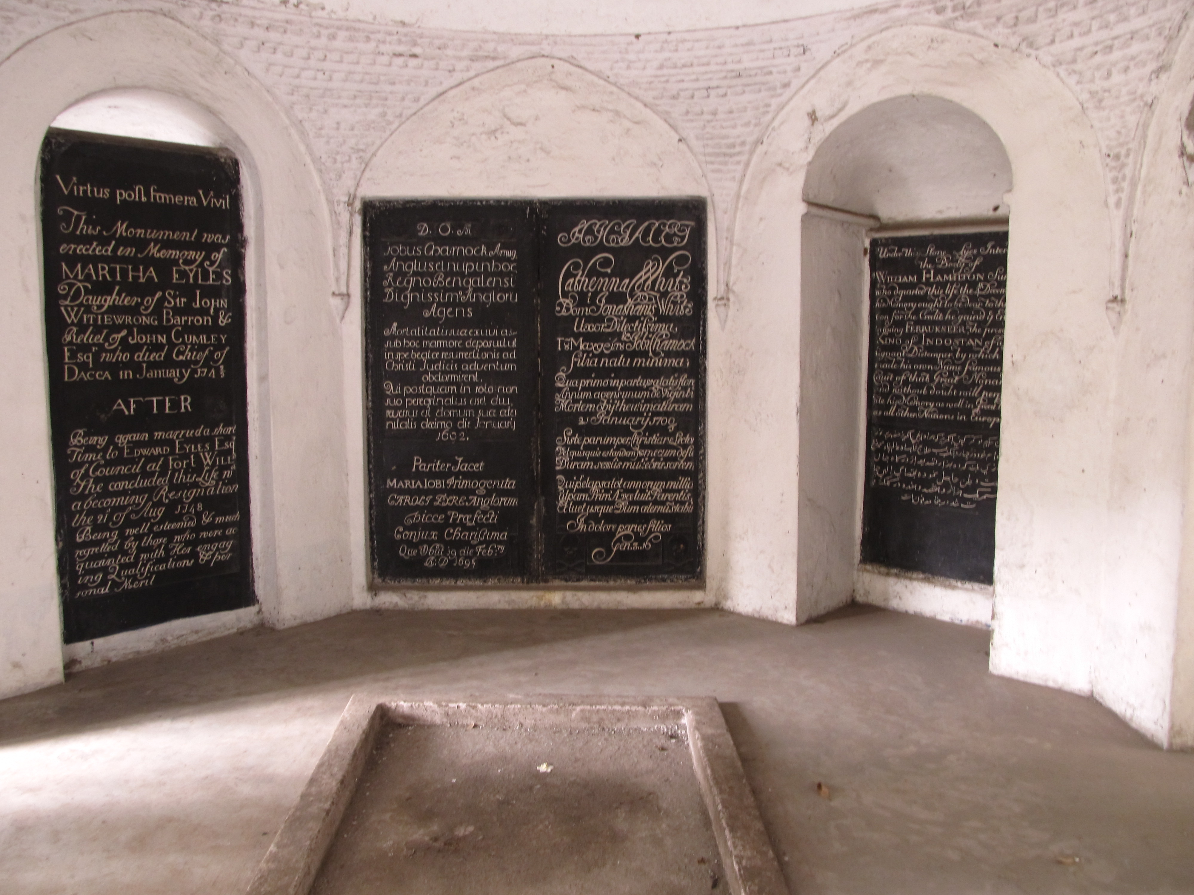 The St John's Church, Kolkata, India.